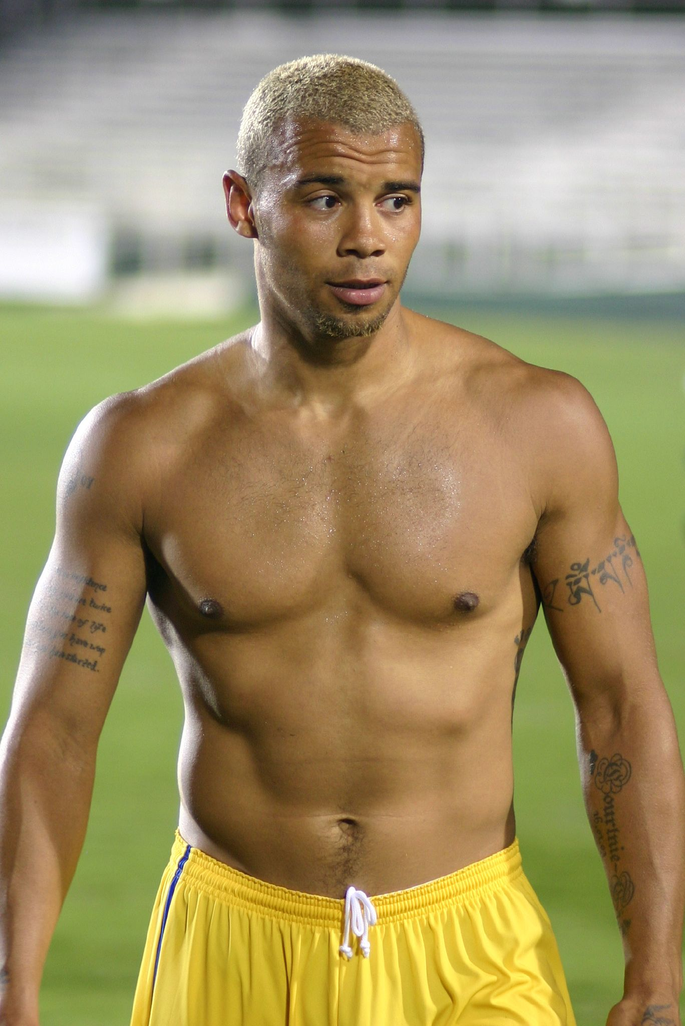 Deon Burton in SWFC's pre-season tour of the USA. USL All-Stars v Sheffield Wednesday, 19th July 2006. Author: W. Jarrett